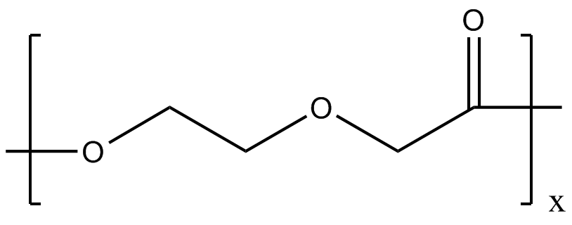 poly(p-dioxanone)